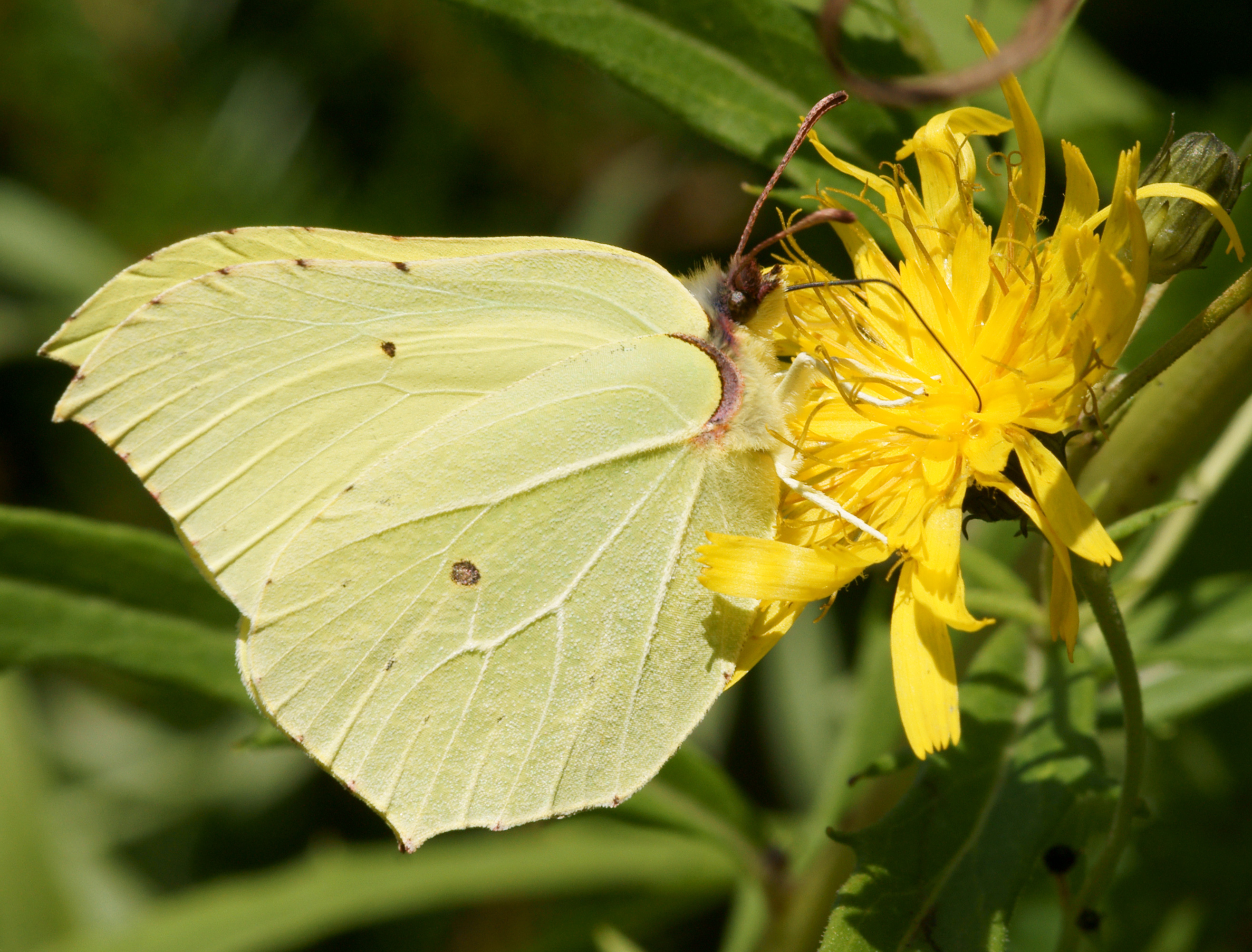 Common Brimstone (Gonepteryx rhamni).